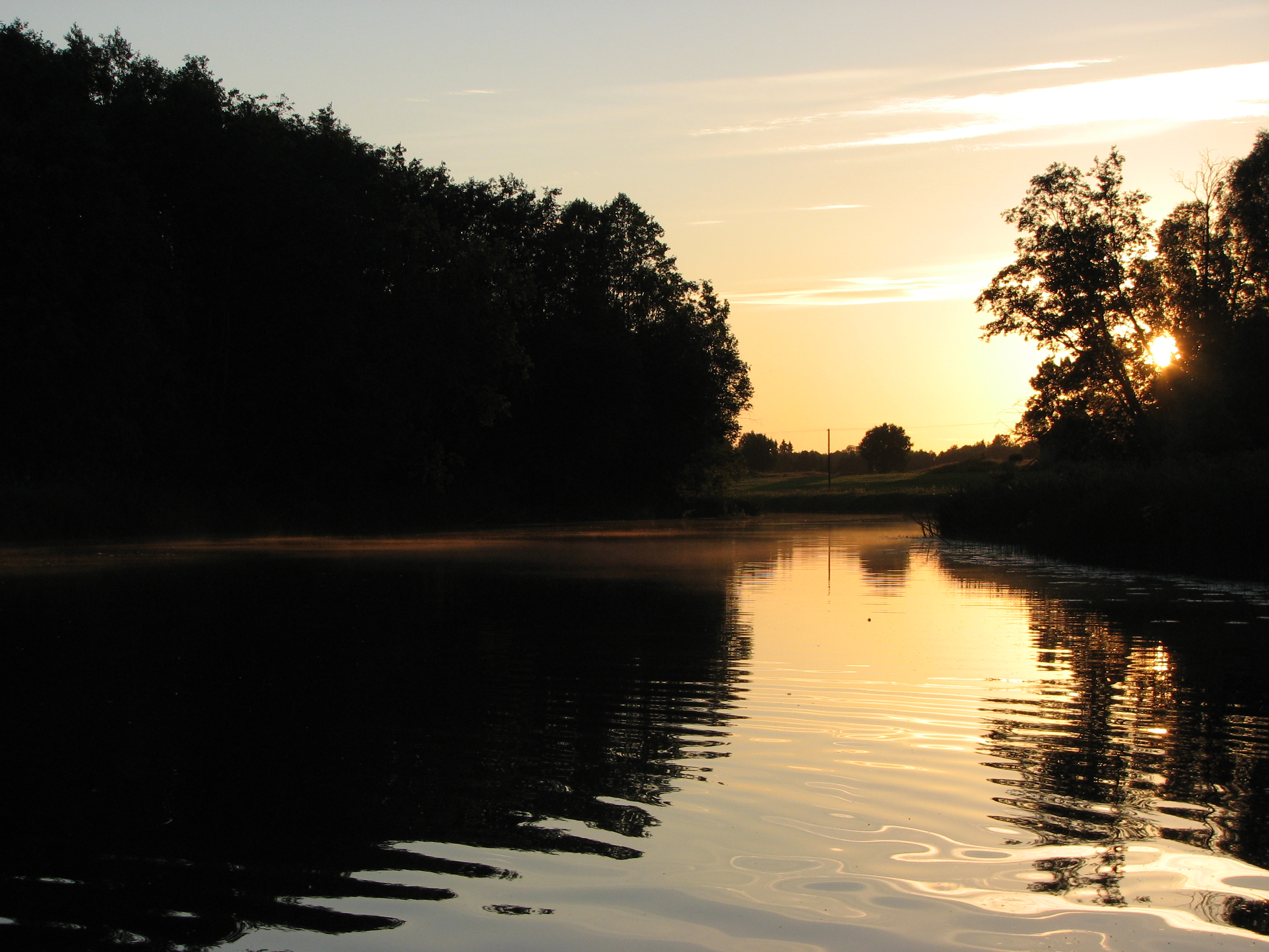 Velise River in Vanamõisa Village (Vigala Parish, Estonia)